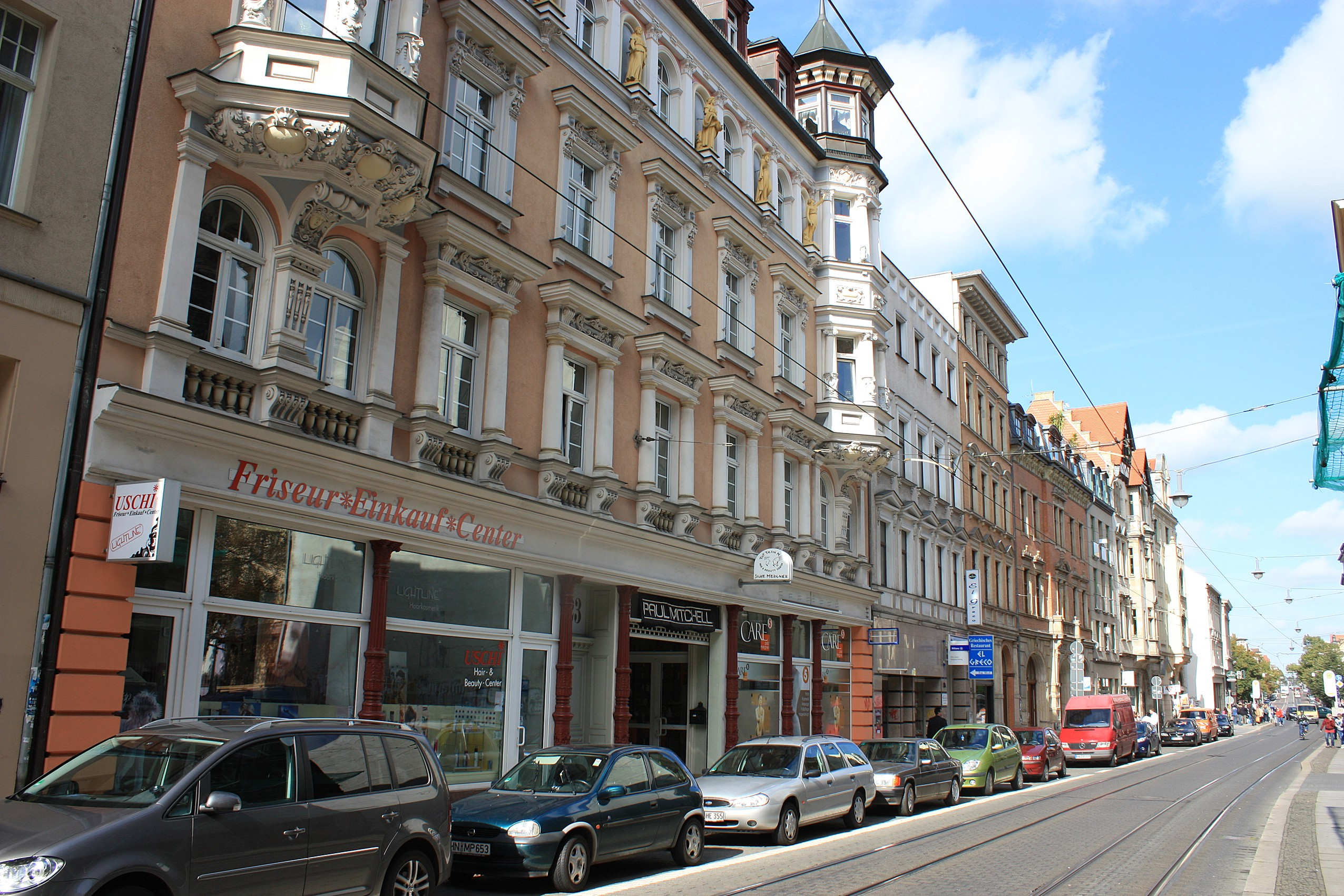 Halle (Saale), a raw of houses at the Geiststraße